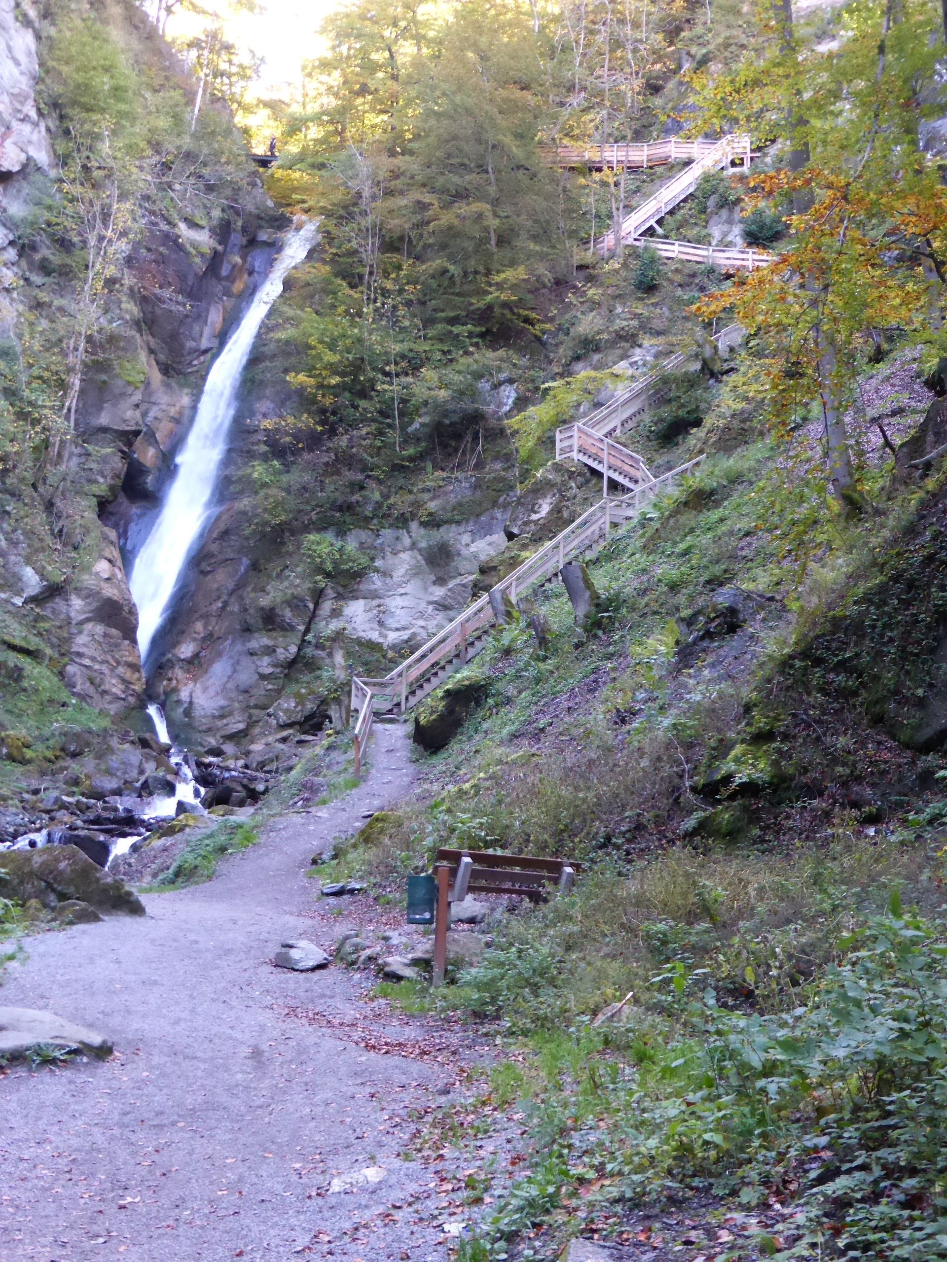 Bischofshofen Gainbachwasserfall-1 This media shows the natural monument in Salzburg with the ID NDM00050.